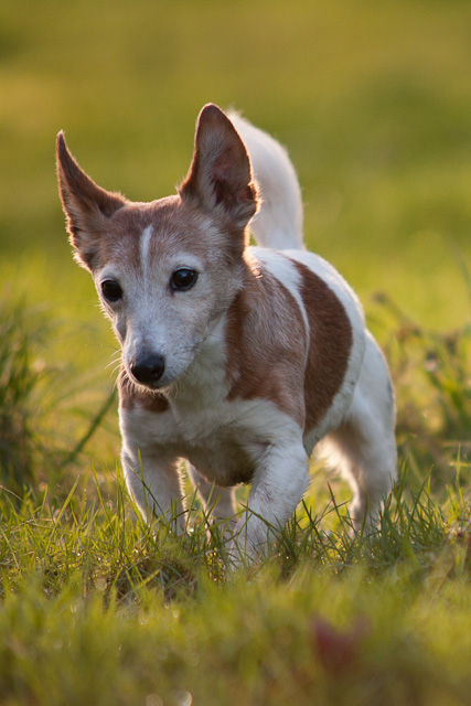 Jack Russel Terrier